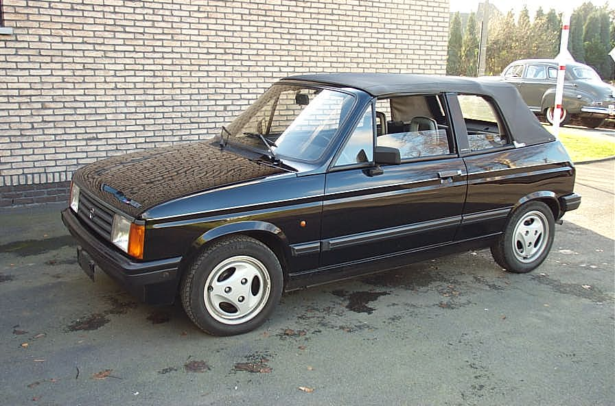 1984 Talbot Samba Cabrio, black The vehicle was among the many classic cars handled by the Garage de l'Est